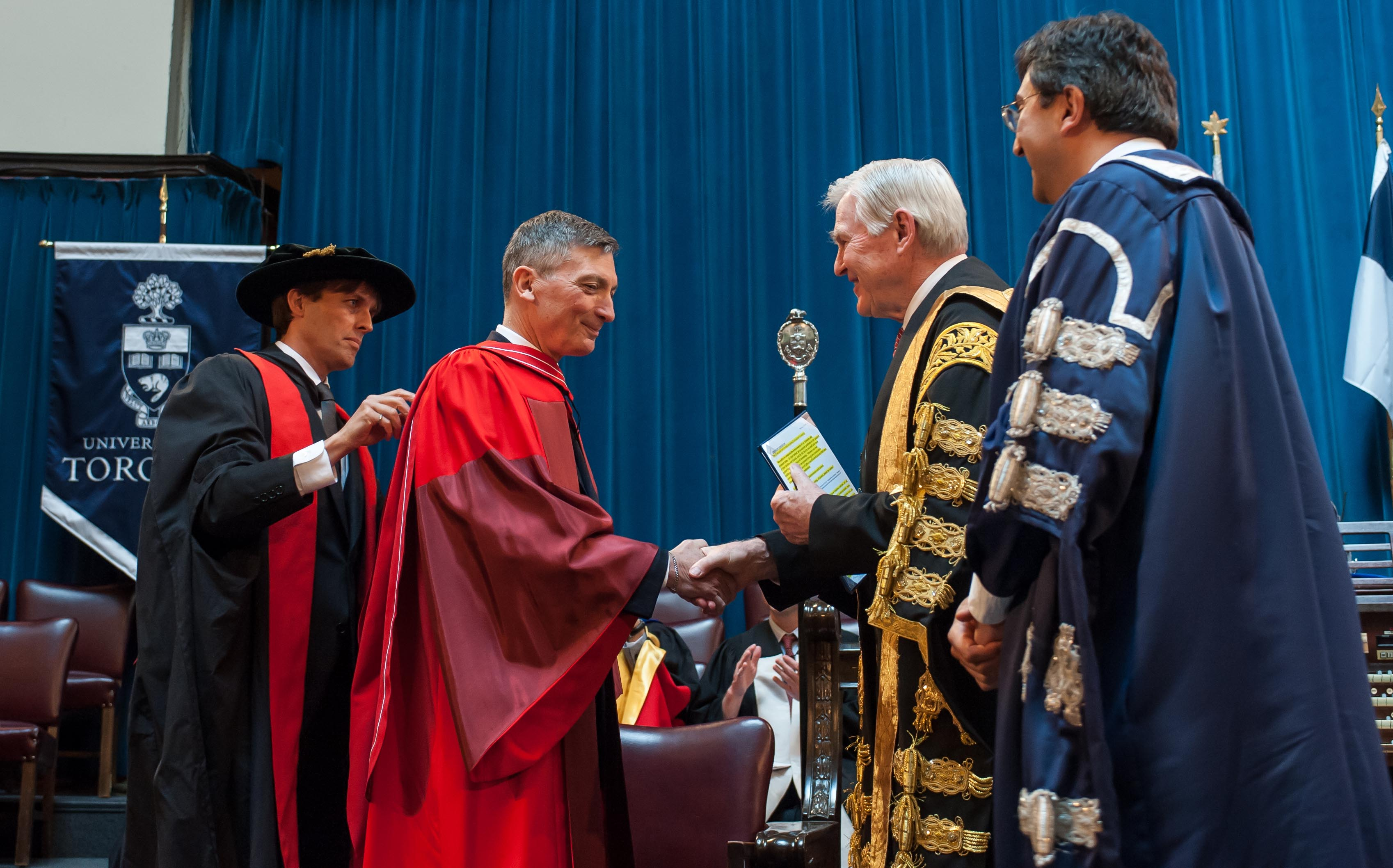 Sadoway receiving the honorary doctorate in Toronto